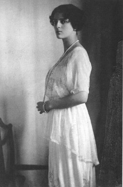 Princess Irina Alexandrovna of Russia in 1913